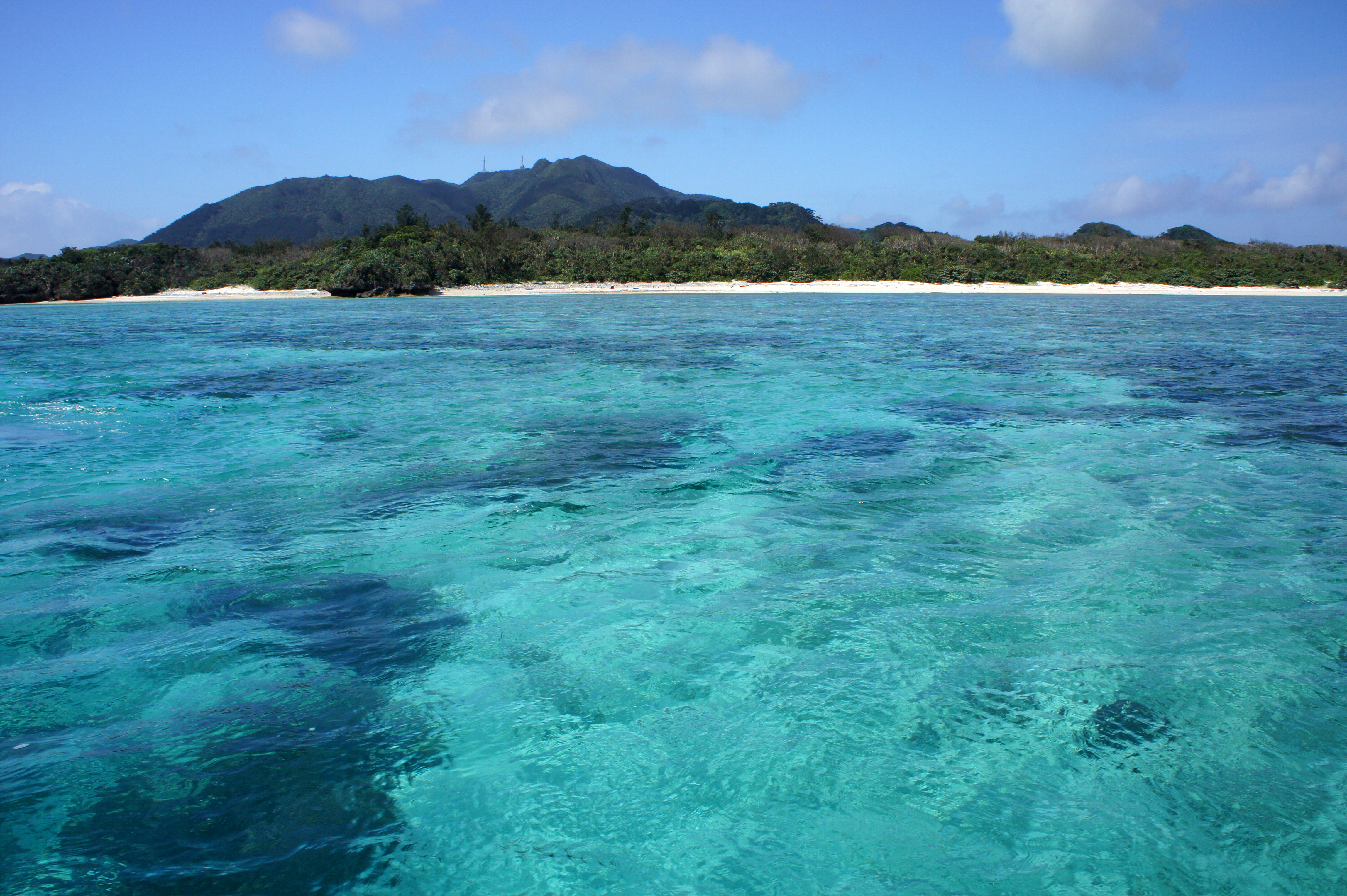 Kabira Bay of Ishigaki Island in Ishigaki City, Okinawa Prefecture, Japan. It is one of the Japan's Places of Scenic Beauty.